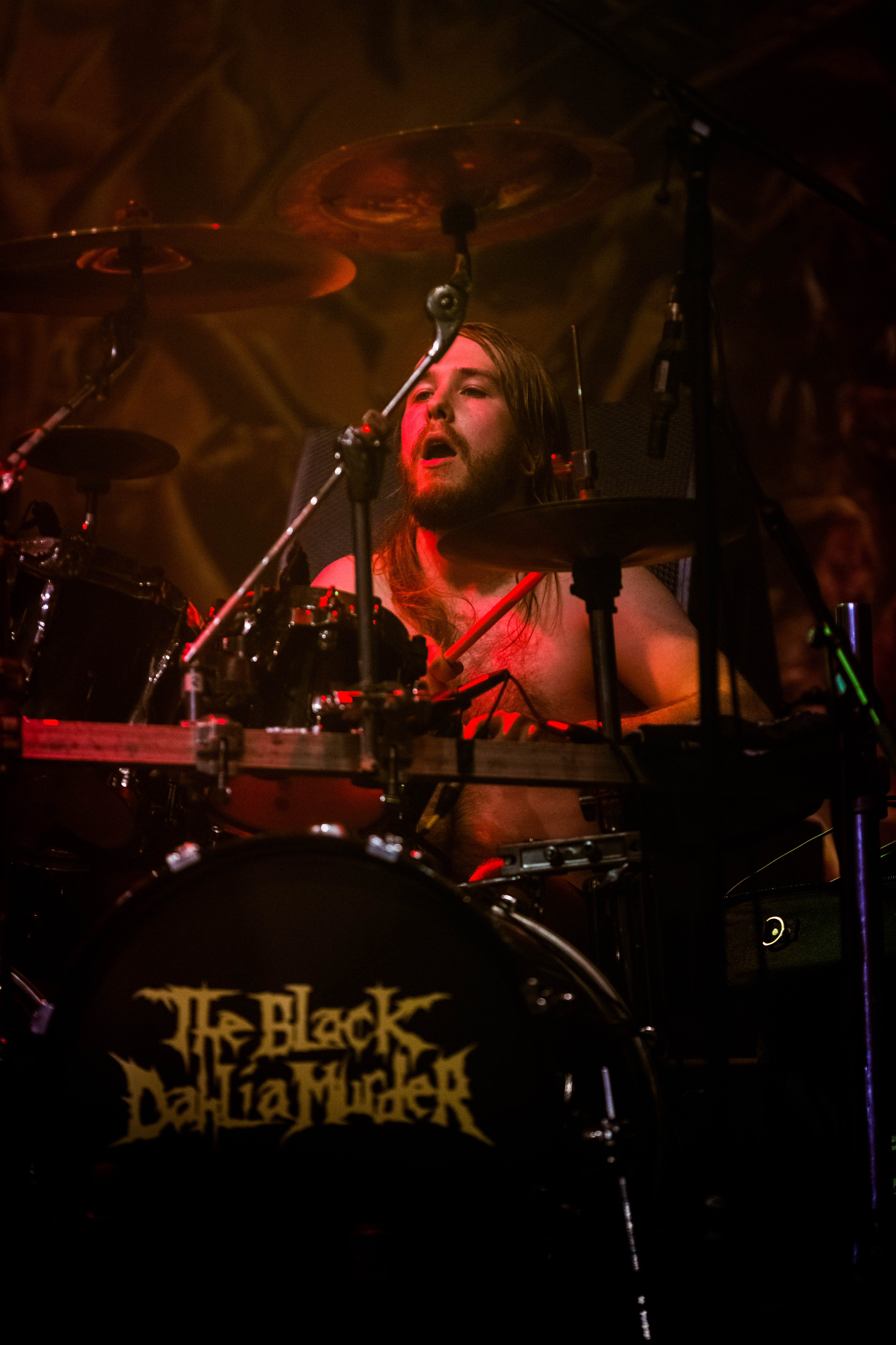 The Black Dahlia Murder - Wacken Open Aire 2016